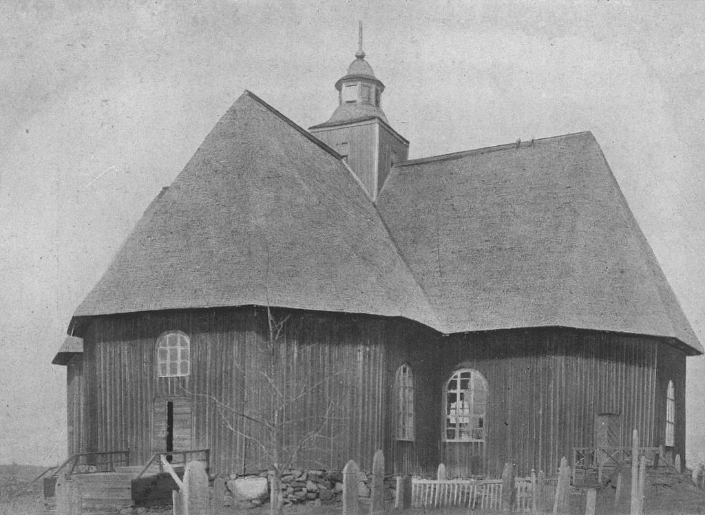 The old church of Pulkkila was built 1768-1769. The church was torn down 1908.